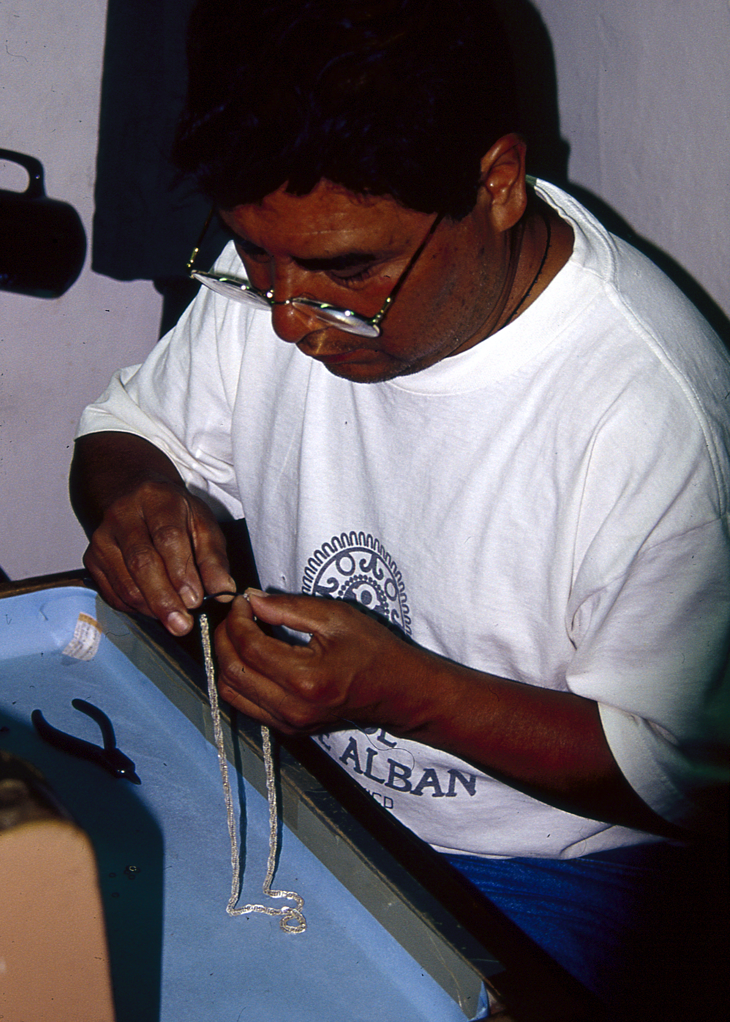 Artisan at the Oro de Monte Alban workshop in Oaxaca